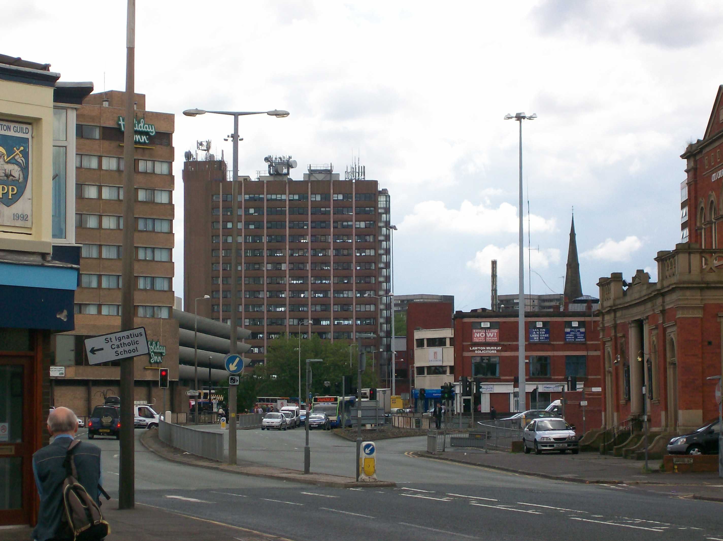 I took this photo myself on a recent visit to Preston.